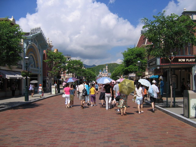 Main Street USA of HK Disneyland